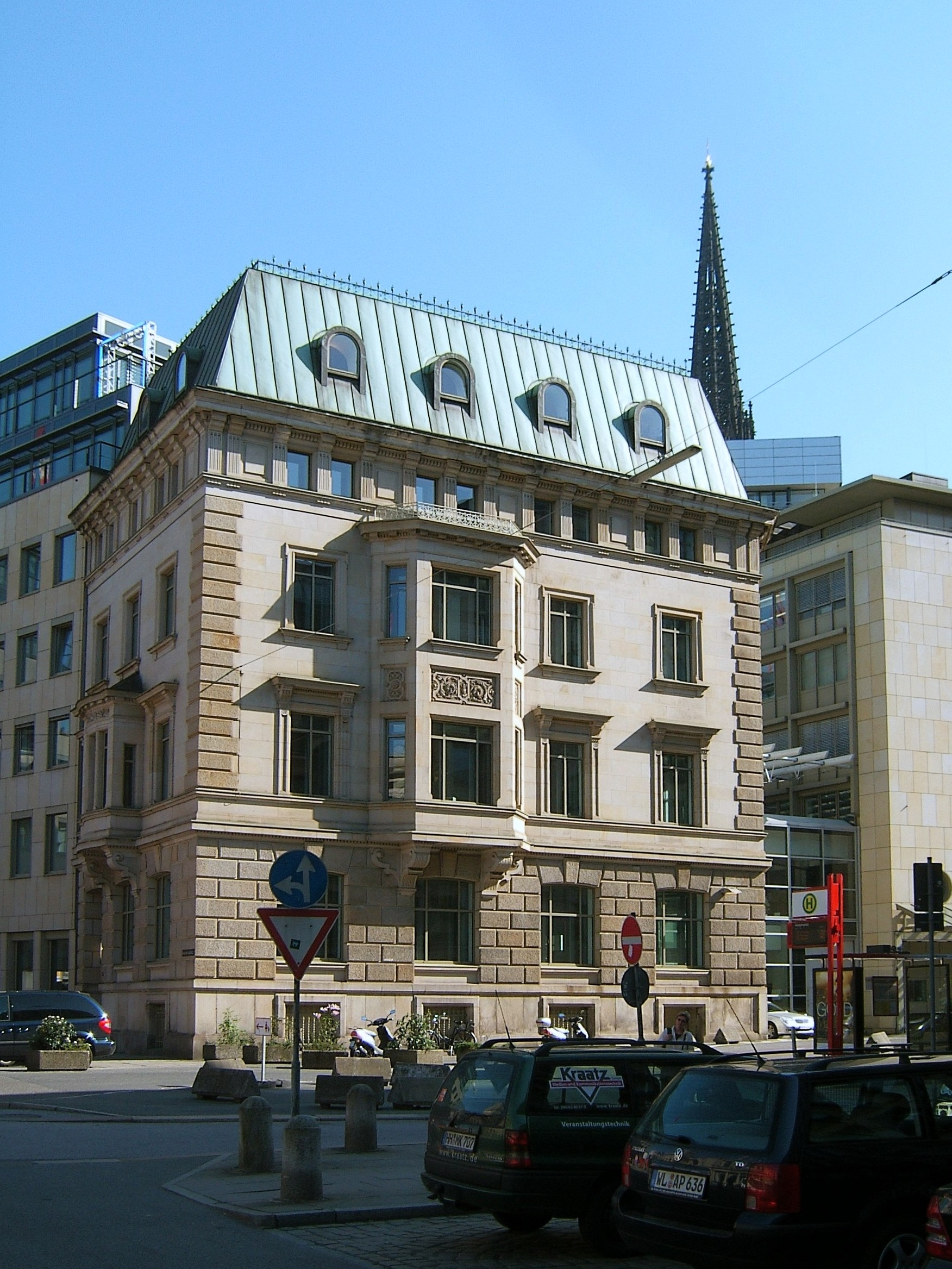 This is a photograph of an architectural monument.